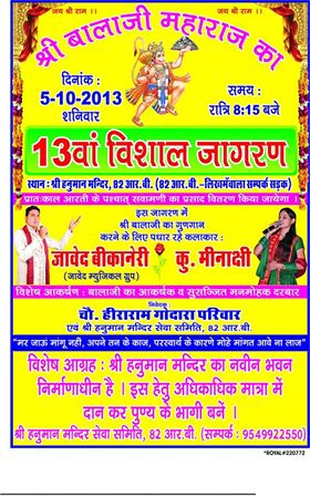 Varshik Jagran 2013